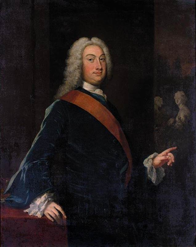 Thomas Fermor, 1st Earl of Pomfret (1698-1753), son of William Fermor, 1st Baron Leominster (Lempster) and Lady Sophia, daughter of Thomas Osborne, 1st Duke of Leeds